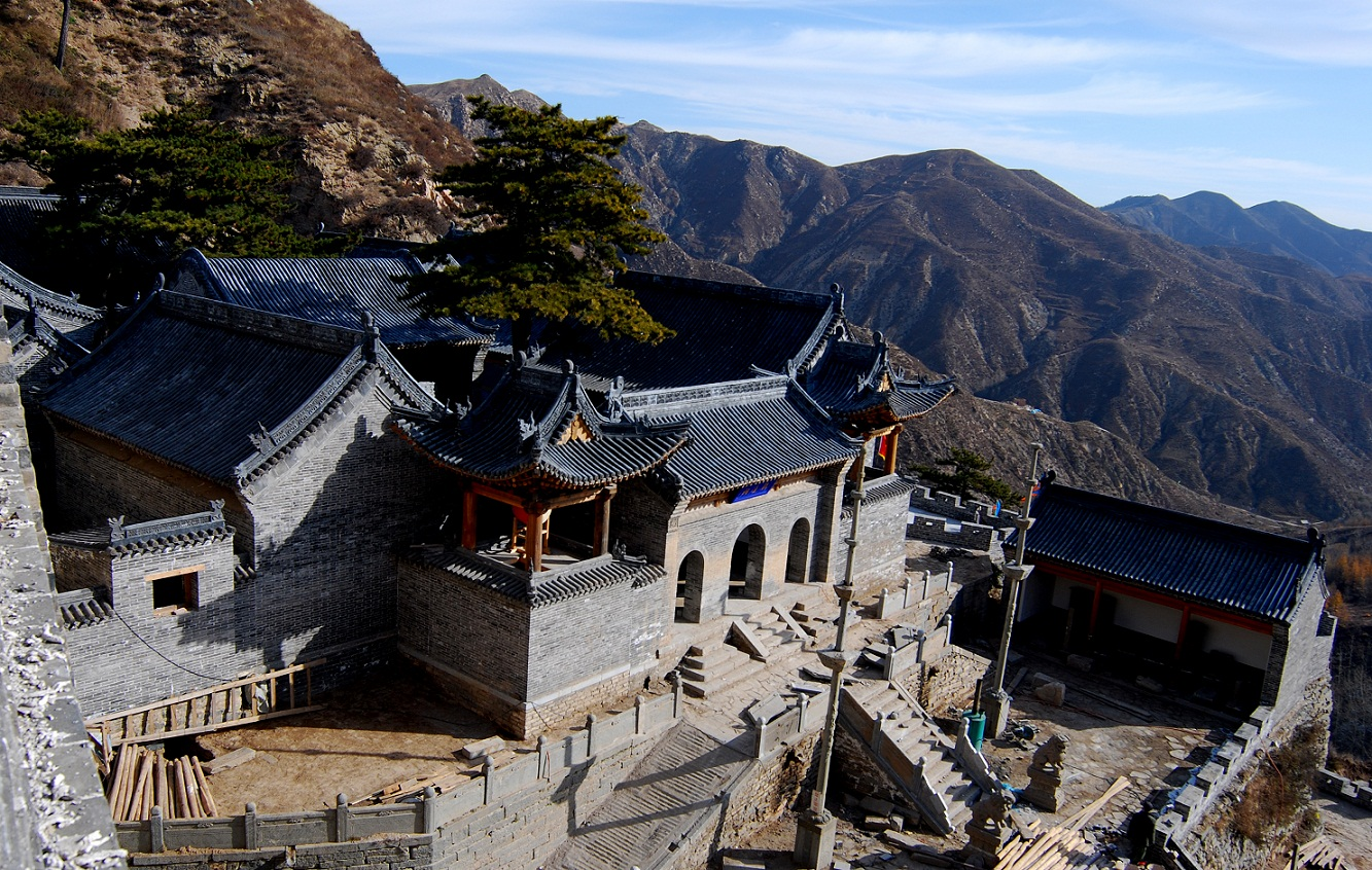 Yanmenguan in Shanxi, China. Under reconstruction.